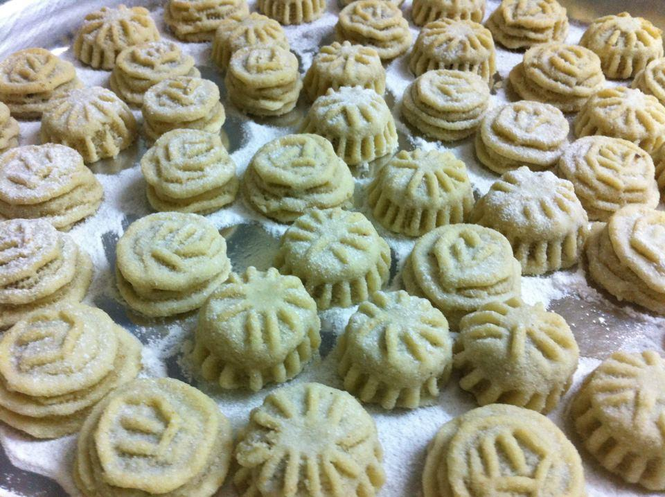 a Homemade Cookies in Preparations for Eid al-Adha.